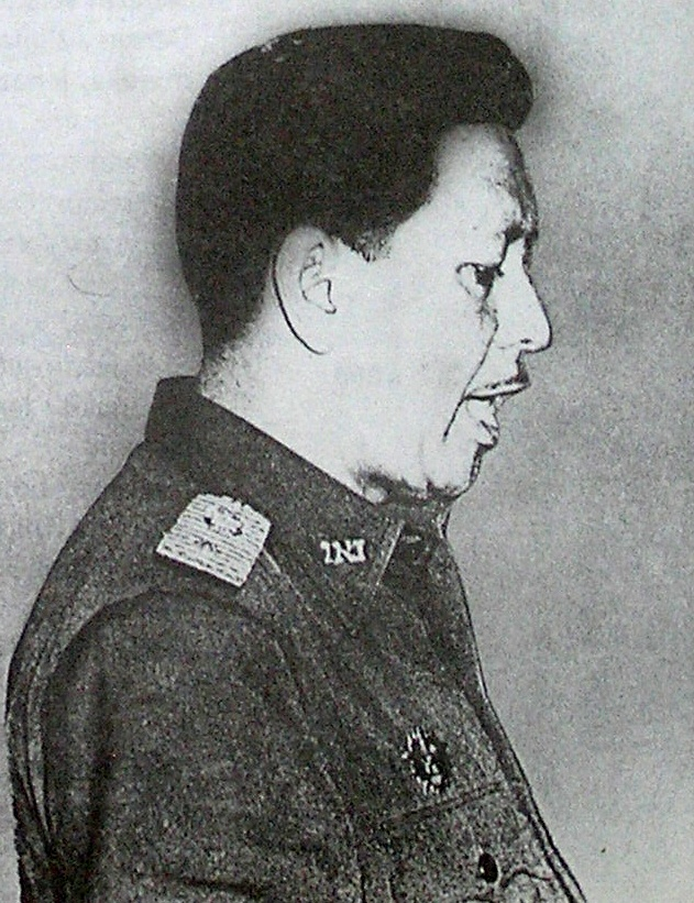 Brig. Gen. Sutoyo Siswomiharjo, Indonesian Army general killed in 1965